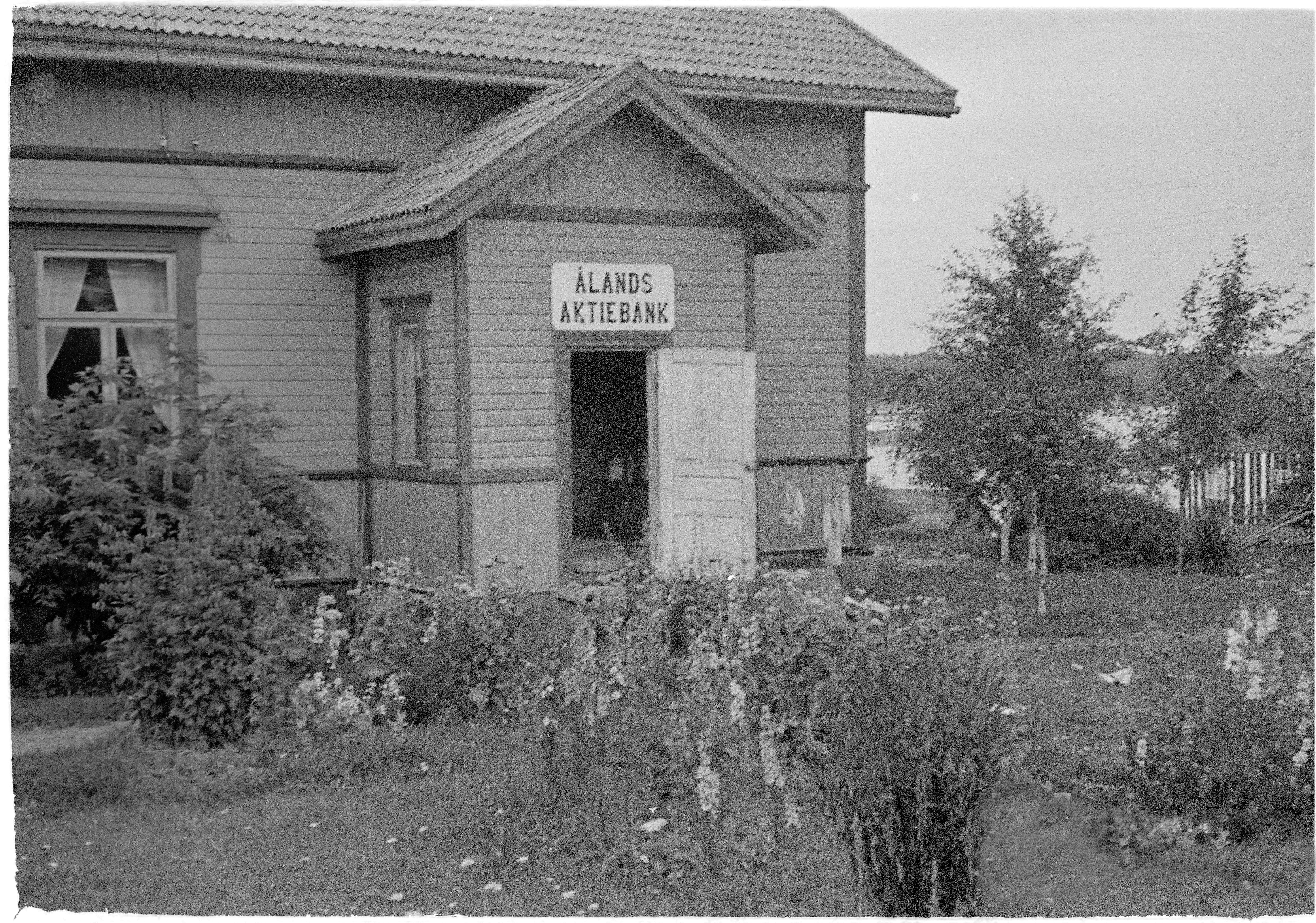 Picture taken between 1939-1945. Sign says "Ålands Aktiebank", the original name of Ålandsbanken, the Åland bank company. Photographer unknown.